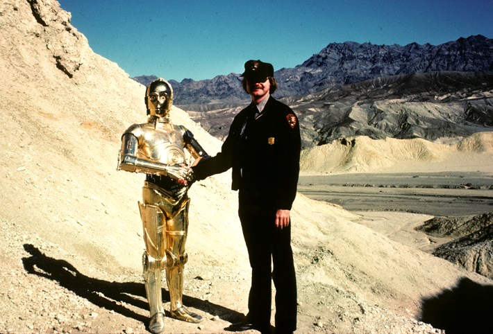 Caption: "Star Wars, A New Hope, filming in Death Valley." (This is disputed, with claims it's from the Return of the Jedi.)